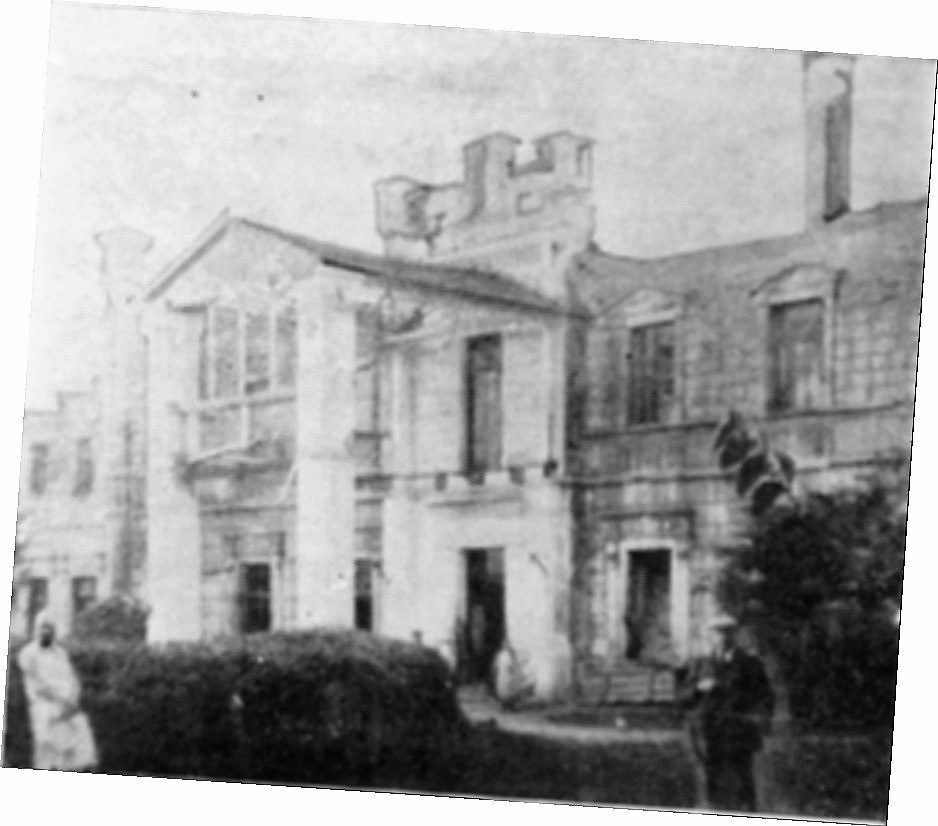 Lubcza_castle, Belarus Любчанскі замак, здымак 1920-ых гг.